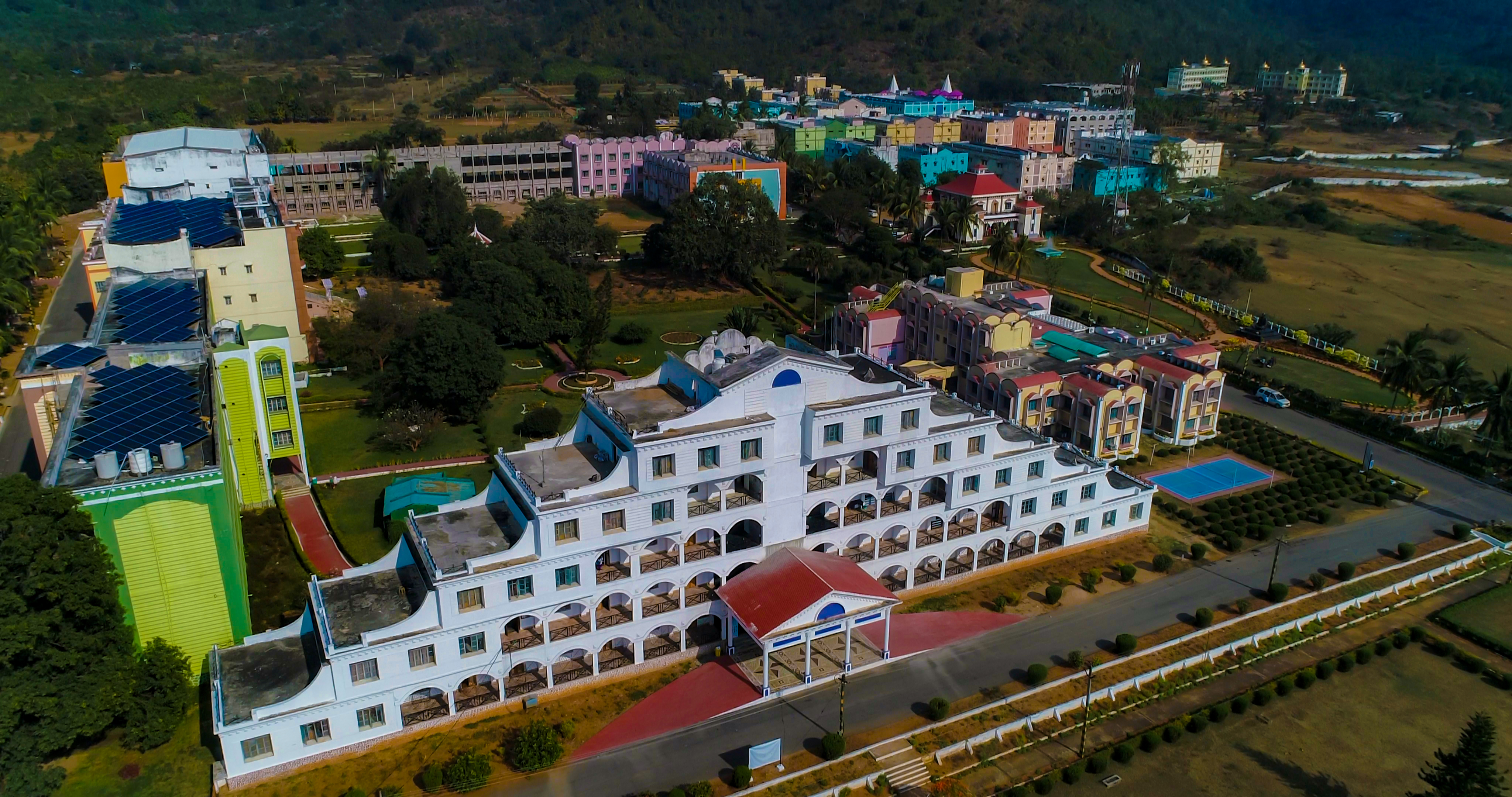 Campus Overview